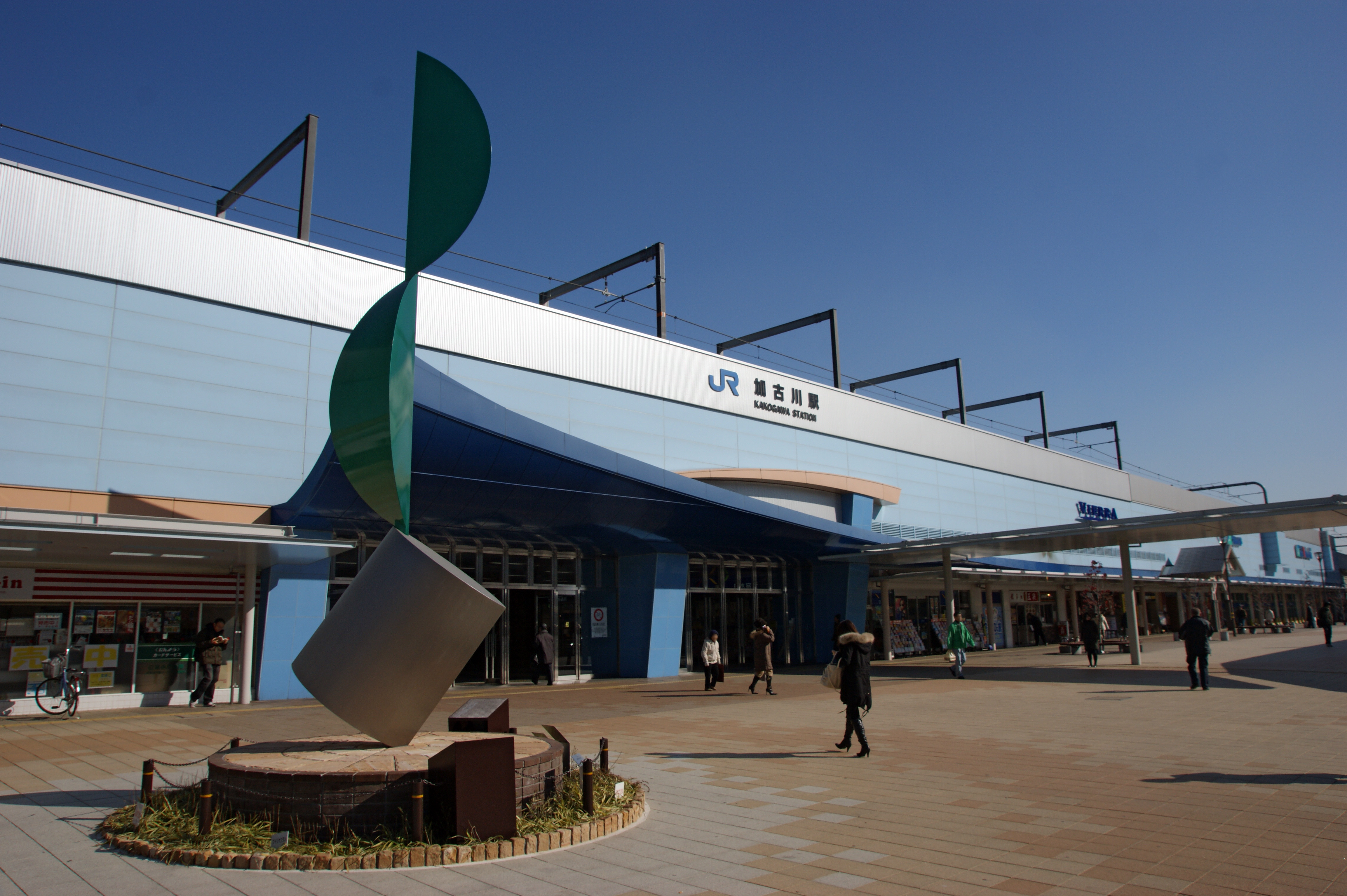 Kakogawa Station, Kakogawa, Hyogo prefecture, Japan